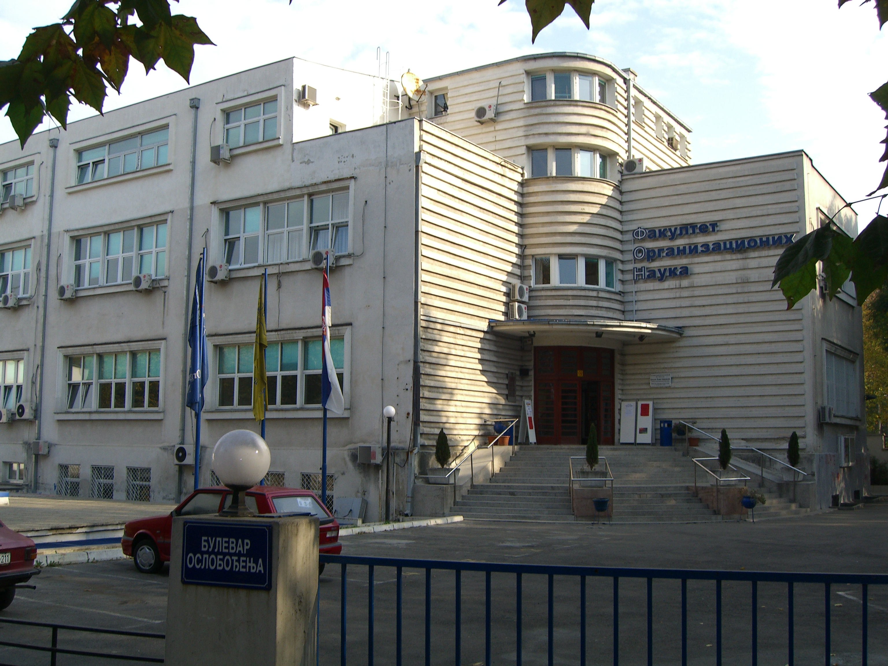 faculty for organisational researches (belgrade) - fakultet organizacionih nauka (beograd)